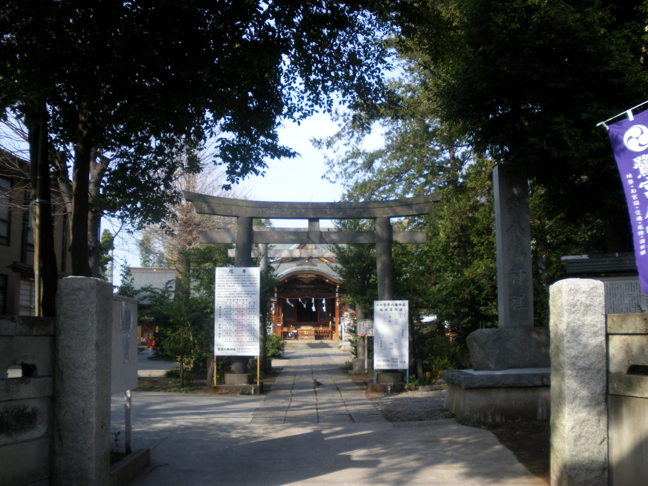 Saginomiya Hachiman Jinja(Shirasagi,Nakano,Tokyo)